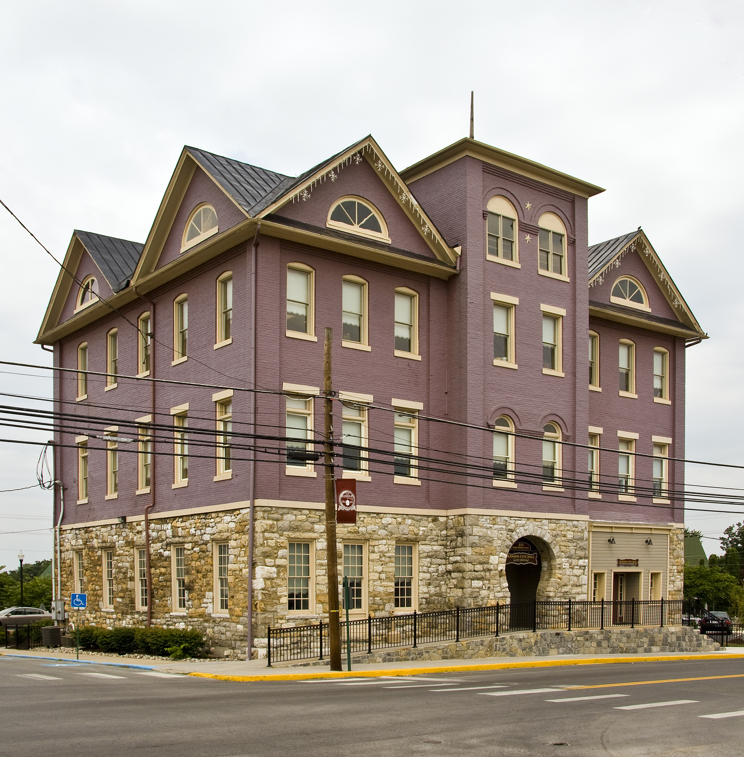 Ranson City Hall, Charles Town, West Virginia, USA, also known as the Charles Town Mining, Manufacturing and Improvement Company Building